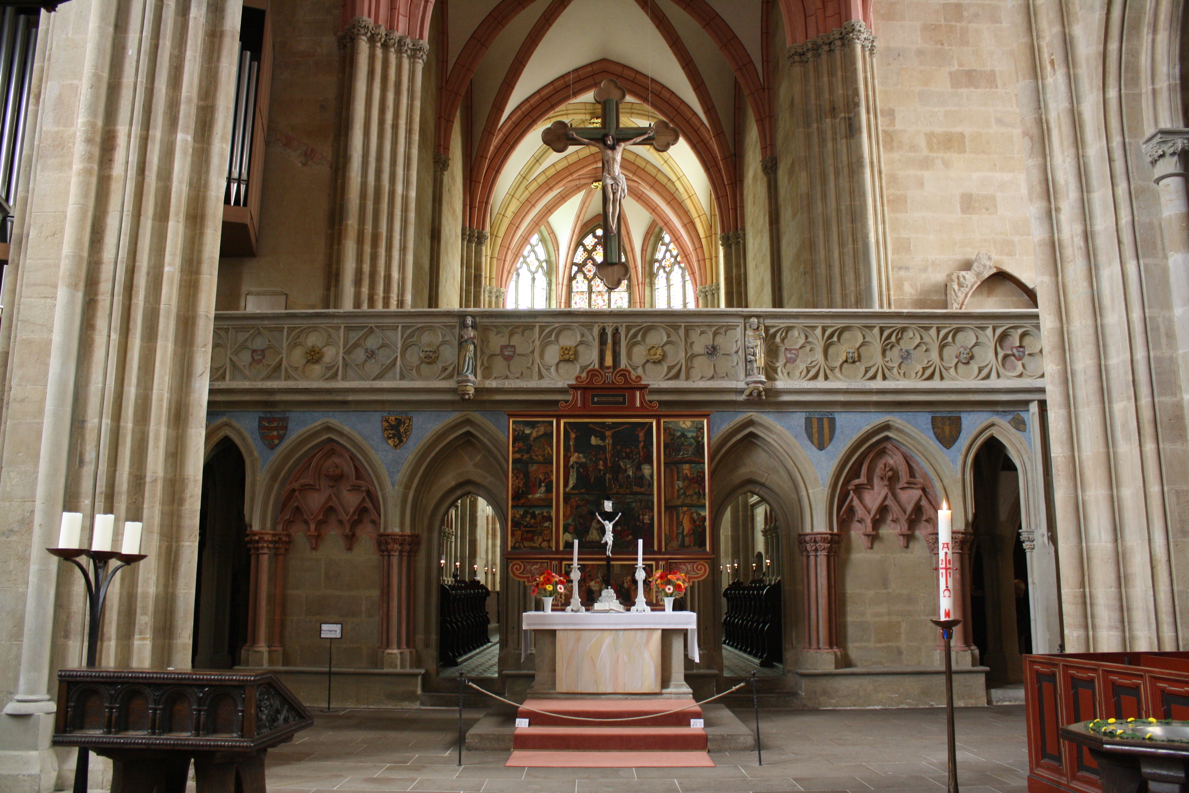 Rood screen in the cathedral of Meissen